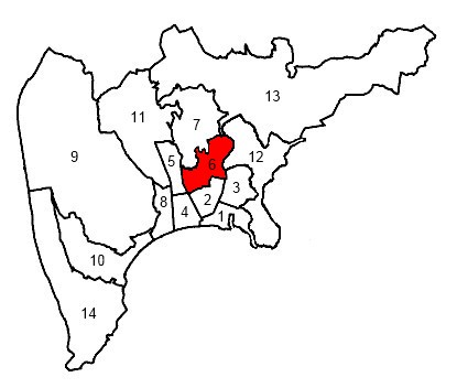 Location of canton of Nice-6 in the city of Nice, Alpes-Maritimes, France.